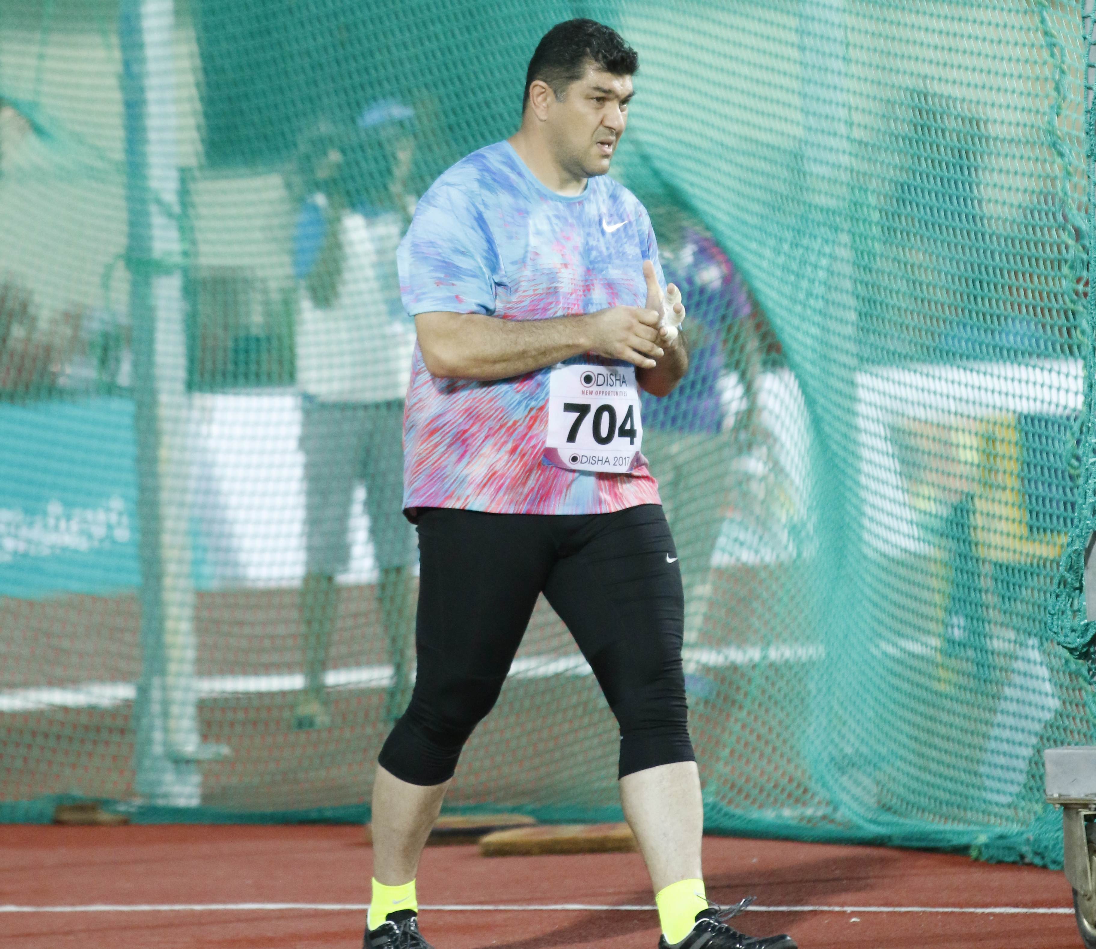 Athletes during 22nd Asian Athletics Championships in Bhubaneswar.